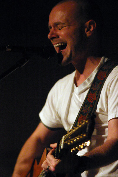 Picture taken by Thomas Campbell on 9/24 at the Derek Webb concert at Ecclesia Church in Houston, Tx.